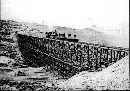 The Big Trestle, the last major bridge of the transcontinental railroad, close to Promontory, Utah. Now part of Golden Spike National Historic Site.